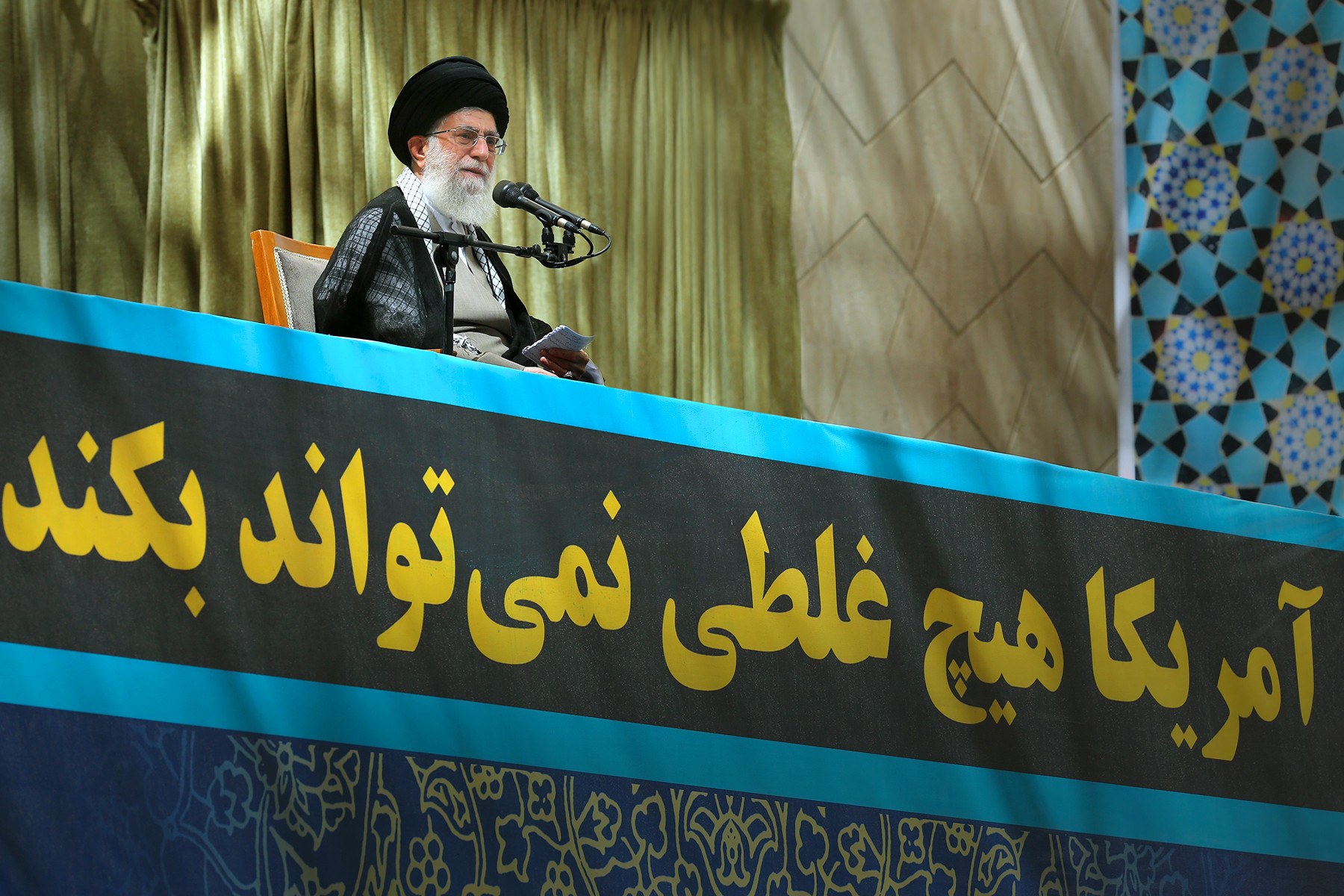 25th Death Anniversary of Ruhollah Khomeini in his mausoleum(13930314 4526610) The slogan America can't do a damn thing against us can be seen in the bottom.